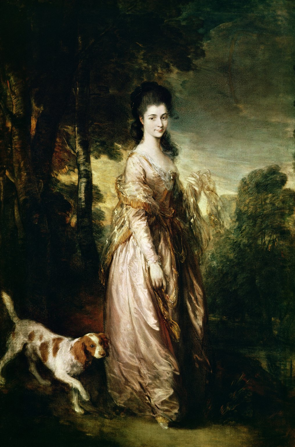 Full-length portrait of Mrs. Lowndes-Stone, née Elizabeth Garth, taken about the time of her marriage to her cousin William Lowndes-Stone in 1775. She is depicted walking in a wooded landscape with a dog gamboling at her feet. She is wearing a salmon-coloured silk dress and a transparent gauze shawl trimmed with a gold fringe; her unpowdered brown hair is swept back from her face and falls in curls around her shoulders. This portrait of Mrs. Lowndes-Stone (1758-1837) is frequently confused and/or misidentified as a portrait of Lady Elizabeth Conyngham by Sir Thomas Lawrence from the early 1820s (which itself is frequently misidentified as one of her mother, Countess Conyngham, later Marchioness Conyngham). Both portraits are in the Museu Calouste Gulbenkian.